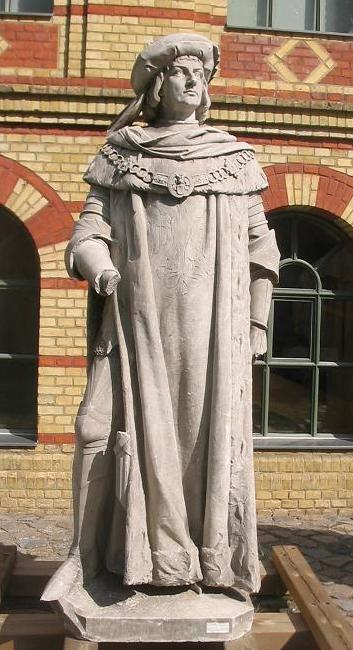 Central statue commemorating Brandenburg’s Margrave and Elector Frederick I (1371–1440) from the monument group № 15 in the former Siegesallee in Berlin. Sculptor: Karl Ludwig Manzel. The sculpture was unveiled on 28 August 1900. Shown here in the Spandau Citadel in August 2009, before its conservation-restoration.